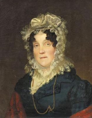 Portrait of Amalie of Hesse-Darmstadt (1754-1832), hereditary princess of Baden